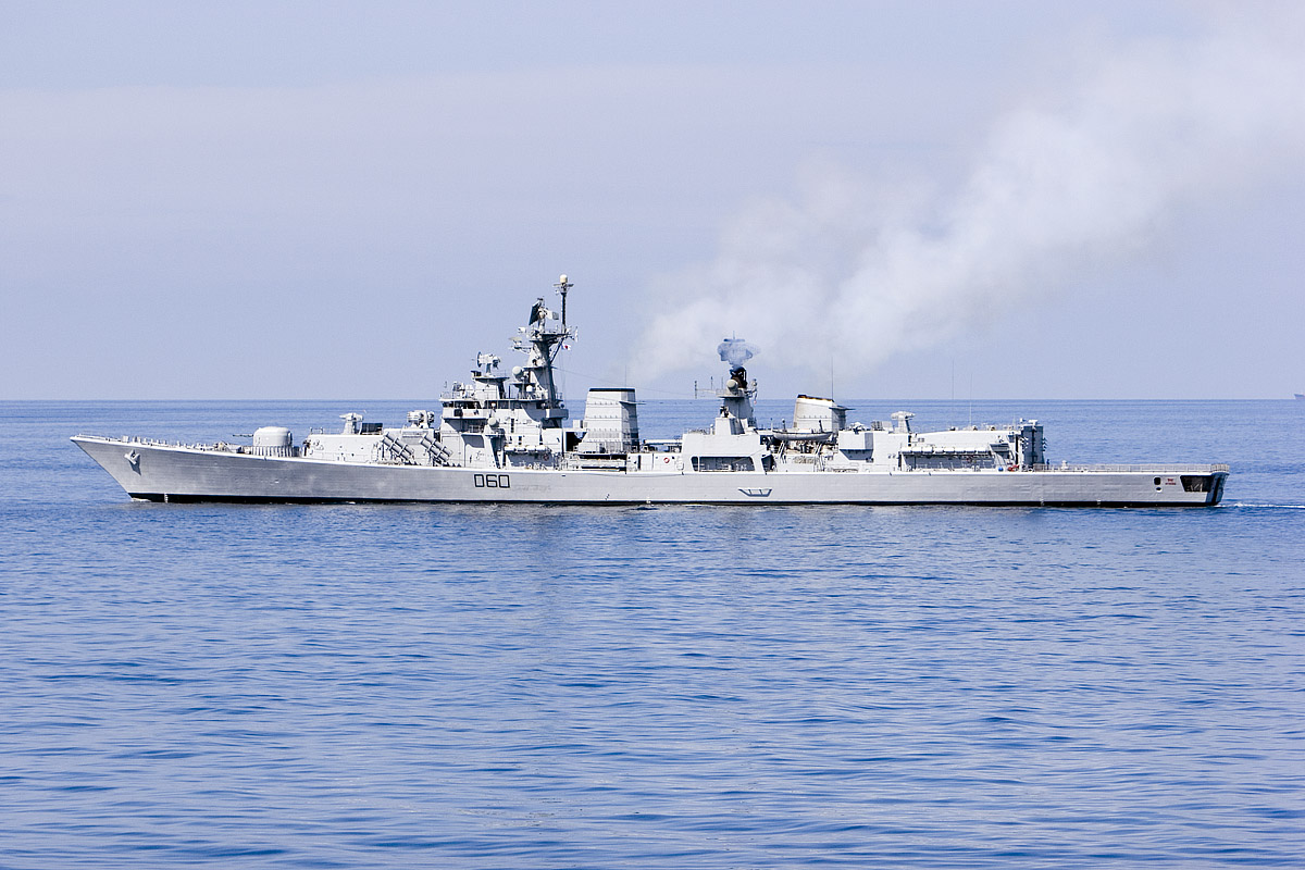 The Indian destroyer "Mysore".